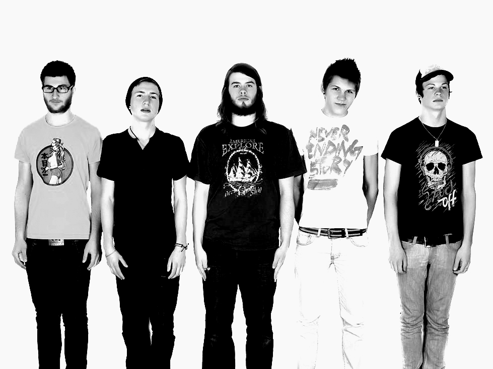 One Time Too Many